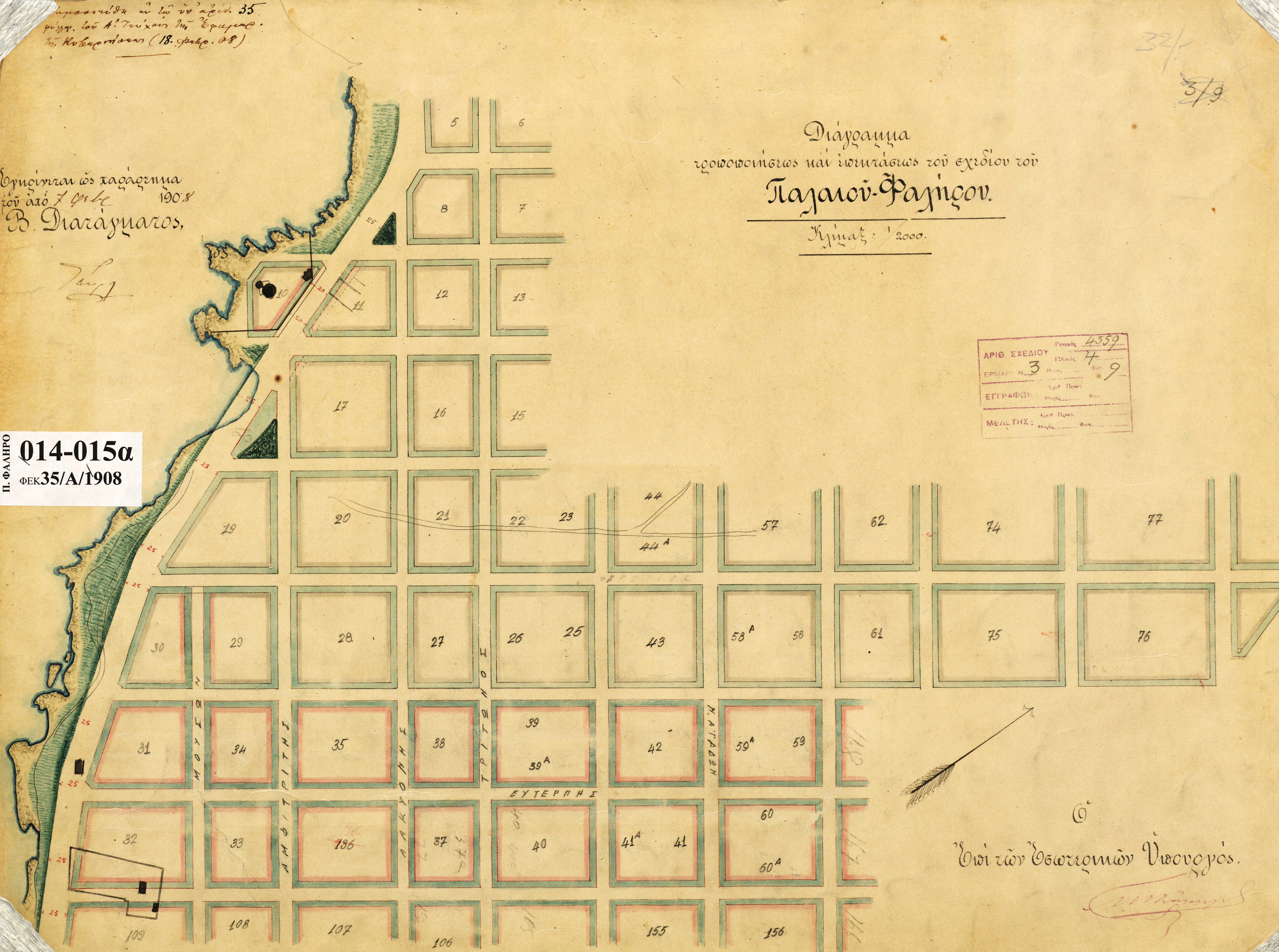 Part of the urban plan of Palaio Faliro